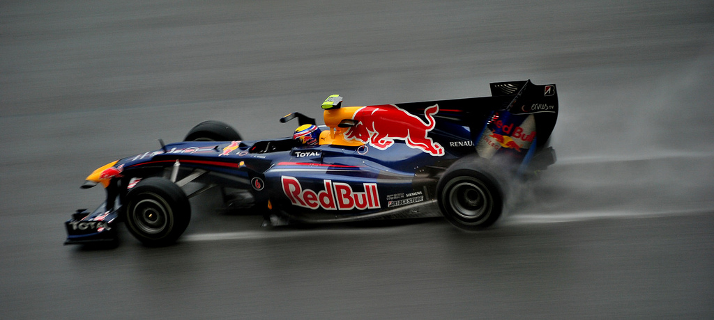 Mark Webber qualified pole position with excellent timing even in heavy rain.